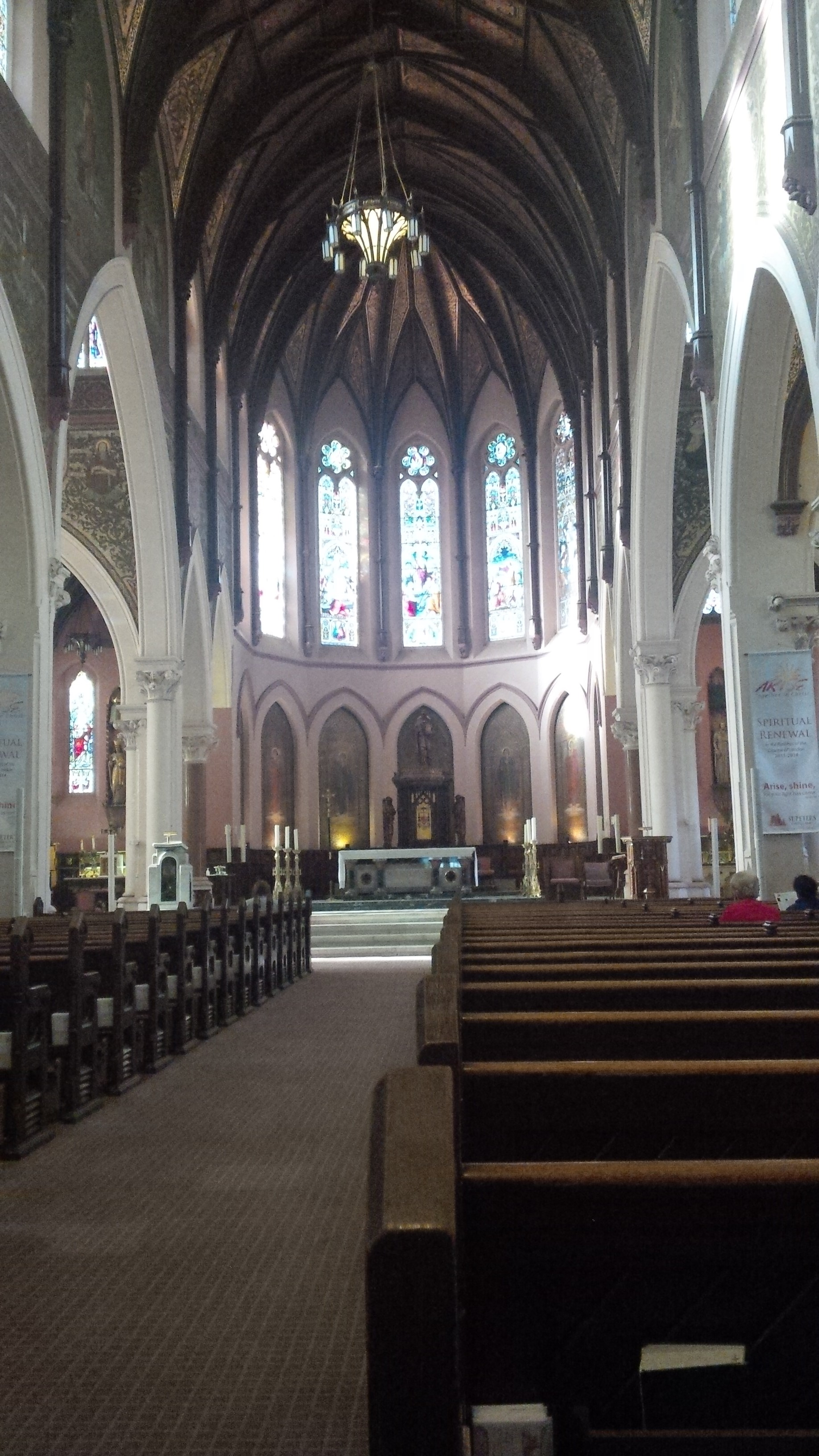 Interior of Saint Peter's Cathedral Basilica, London Ontario